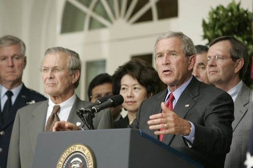 President George W. Bush stands with Secretary of Defense Donald Rumsfeld; Secretary of Labor Elaine Chao and Mike Leavitt, Secretary of Health and Human Services, as he speaks to the media from the Rose Garden of the White House regarding the devastation along the Gulf Coast caused by Hurricane Katrina.